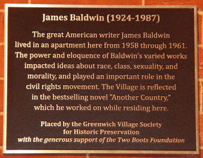 Historic Plaque unveiled by Greenwich Village Society for Historic Preservation at 81 Horatio St. where James Baldwin lived in the late 1950s and early 1960s during one of his most prolific and creative periods.